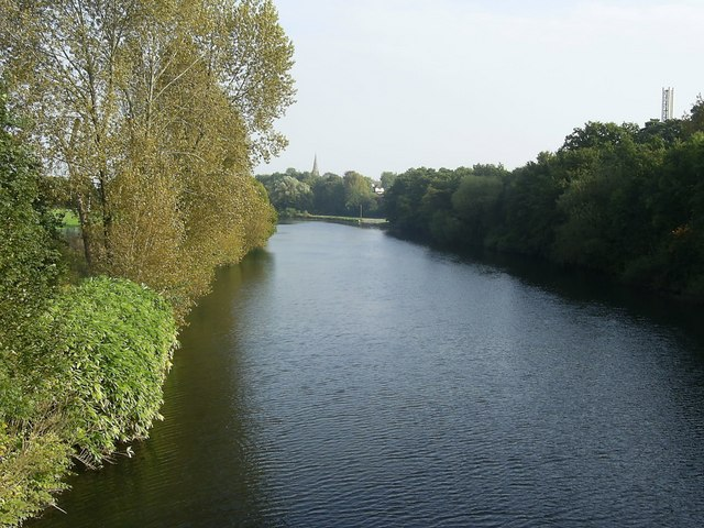 River Taff Viewed from the road bridge which links Llandaff North with Llandaff.